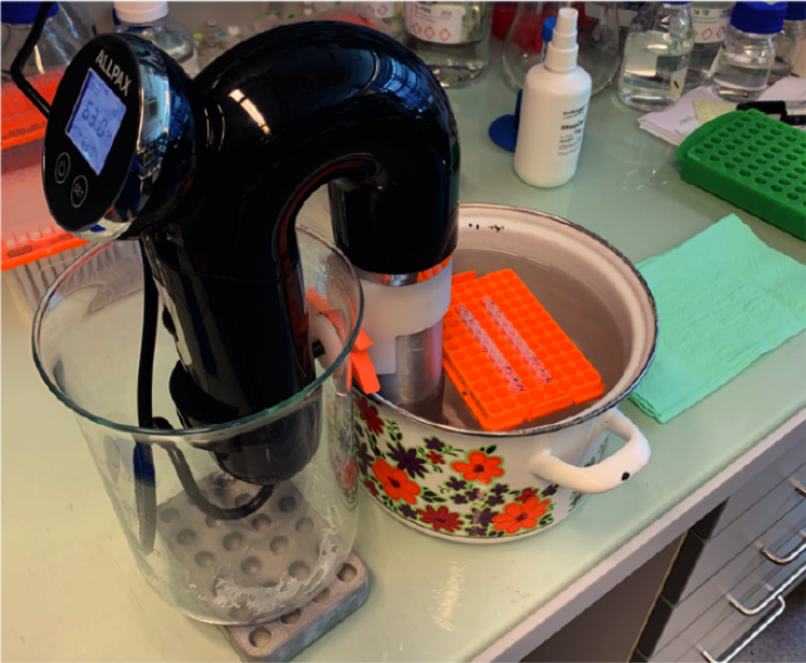 Bench setup of a water bath for RT-LAMP reaction. Heating is set to 63ºC with a Sous Vide heater, simulating a do-it-yourself setup. Photo taken on a benchtop at the Institute of Molecular Pathology, in the Vienna BioCenter.